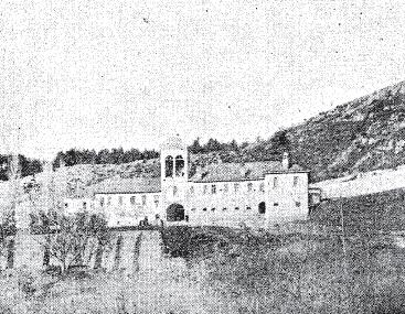 The Monastery of Saint John Baptist in Moscopole/Voskopoja/Moschopolis, southeastern Albania.